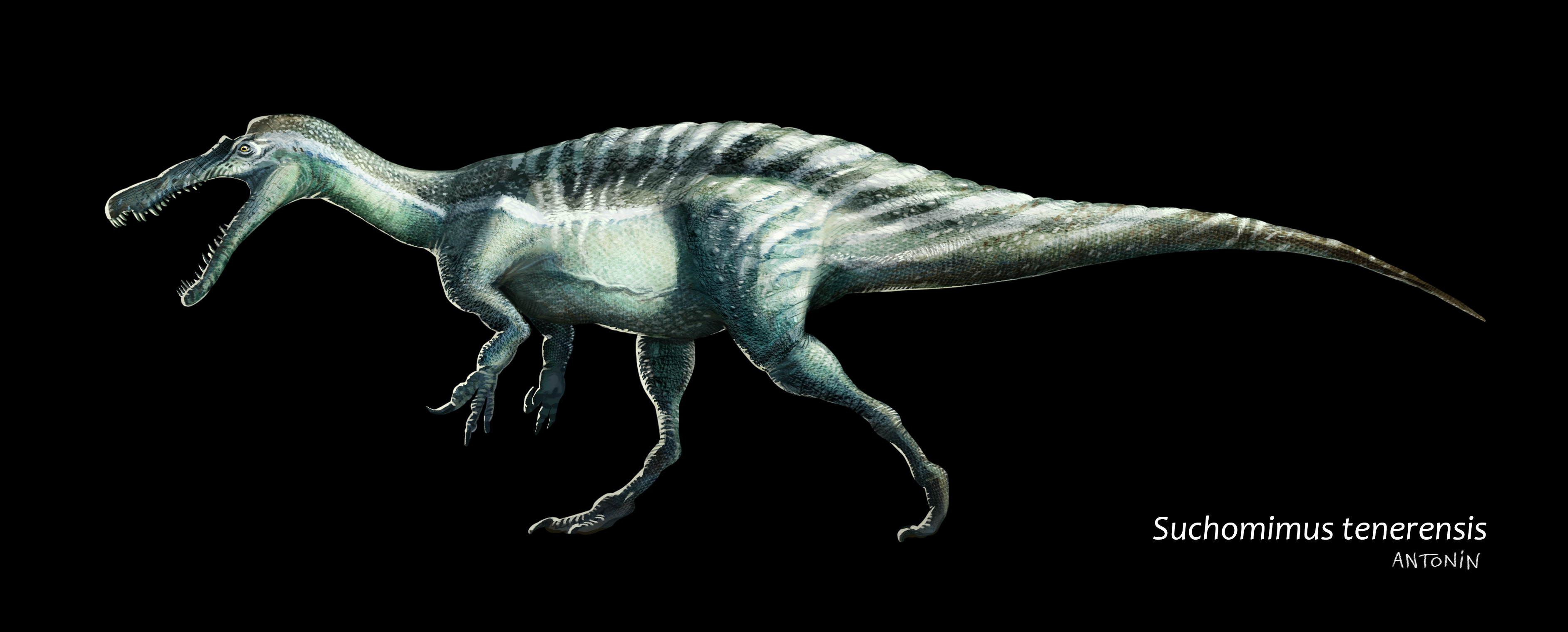 Dinosaur - Suchomimus tenerensis